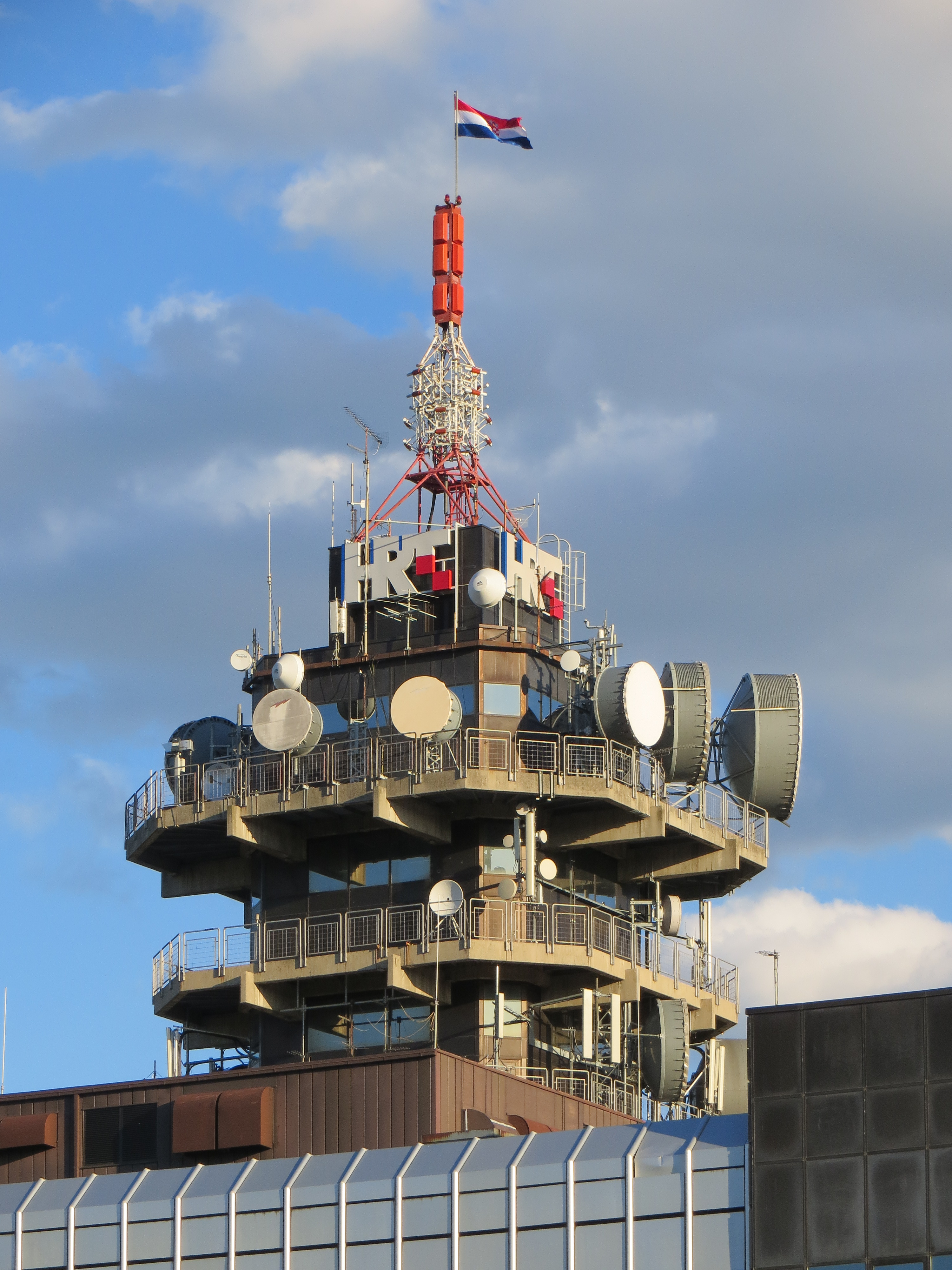 Main communications tower of the Croatian Radiotelevision HQ in Zagreb.